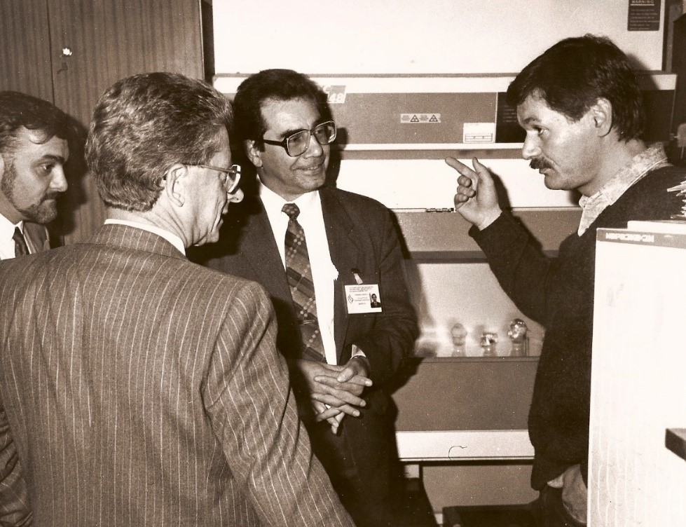 V.I. Kiselev (on the right) and Е. S. Severin (the center) during a visit of colleagues from Germany (on the left) to the All-Russian Scientifiс Centre of Molecular Diagnostics and Treatment (the 1990s)